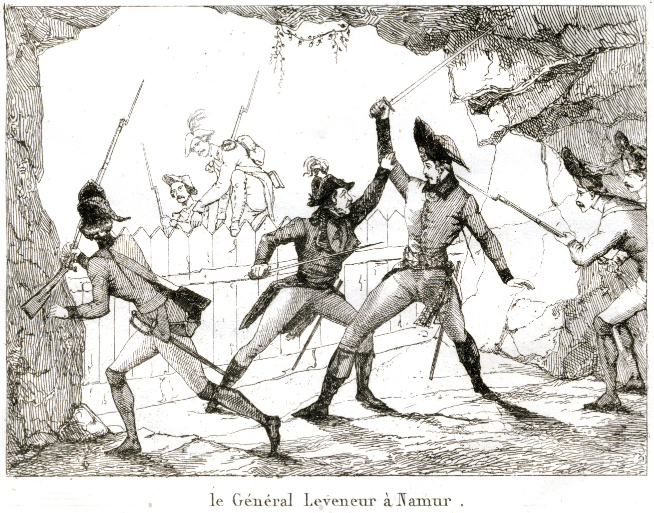 The General Alexis Le Veneur de Tillières (alias Leveneur) at the siege of Namur (Belgium) in November 1792. Plate published in 1833.